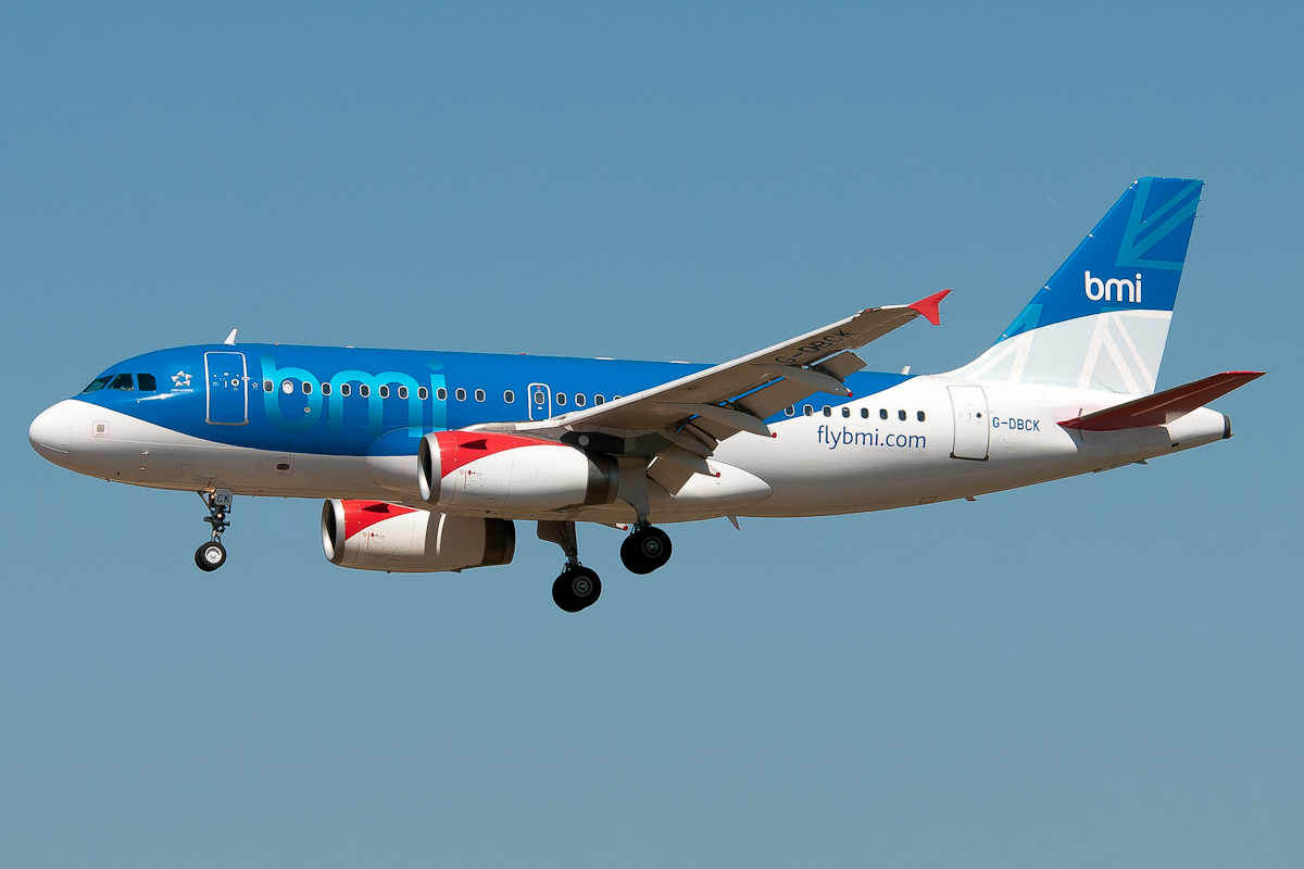 BMI British Midland Airbus A319-131 G-DBCK. At Palma de Mallorca (- Son San Juan) (PMI / LEPA / LESJ)